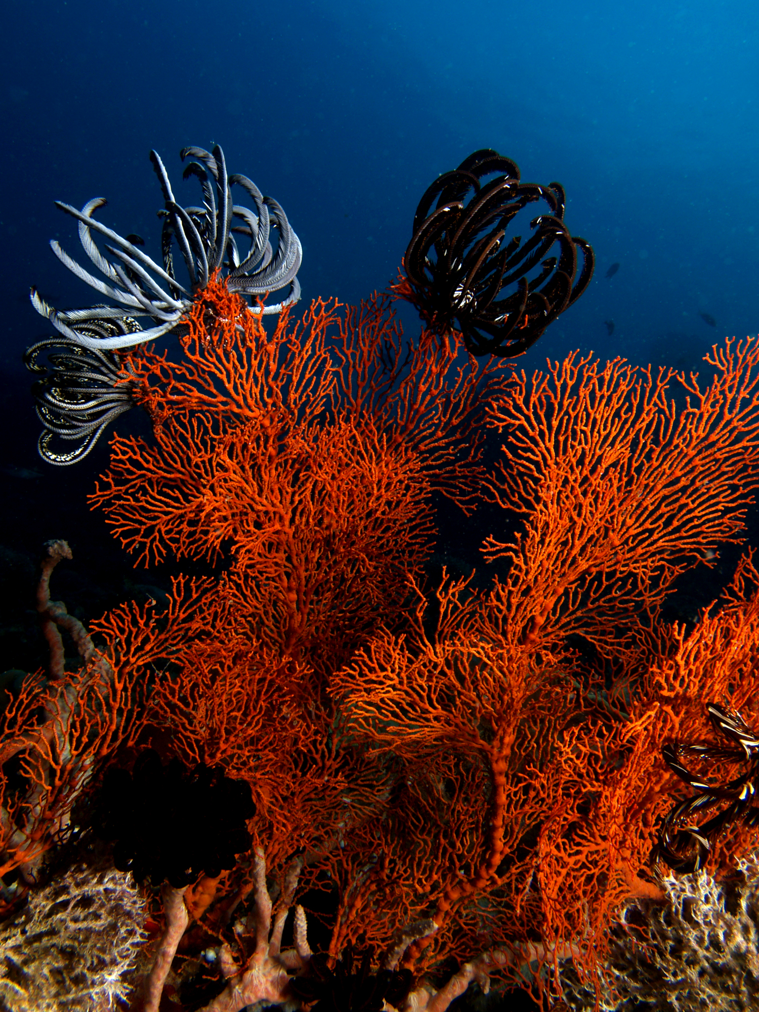 Melithaea sp. (Gorgonian fan) with black and white feather stars